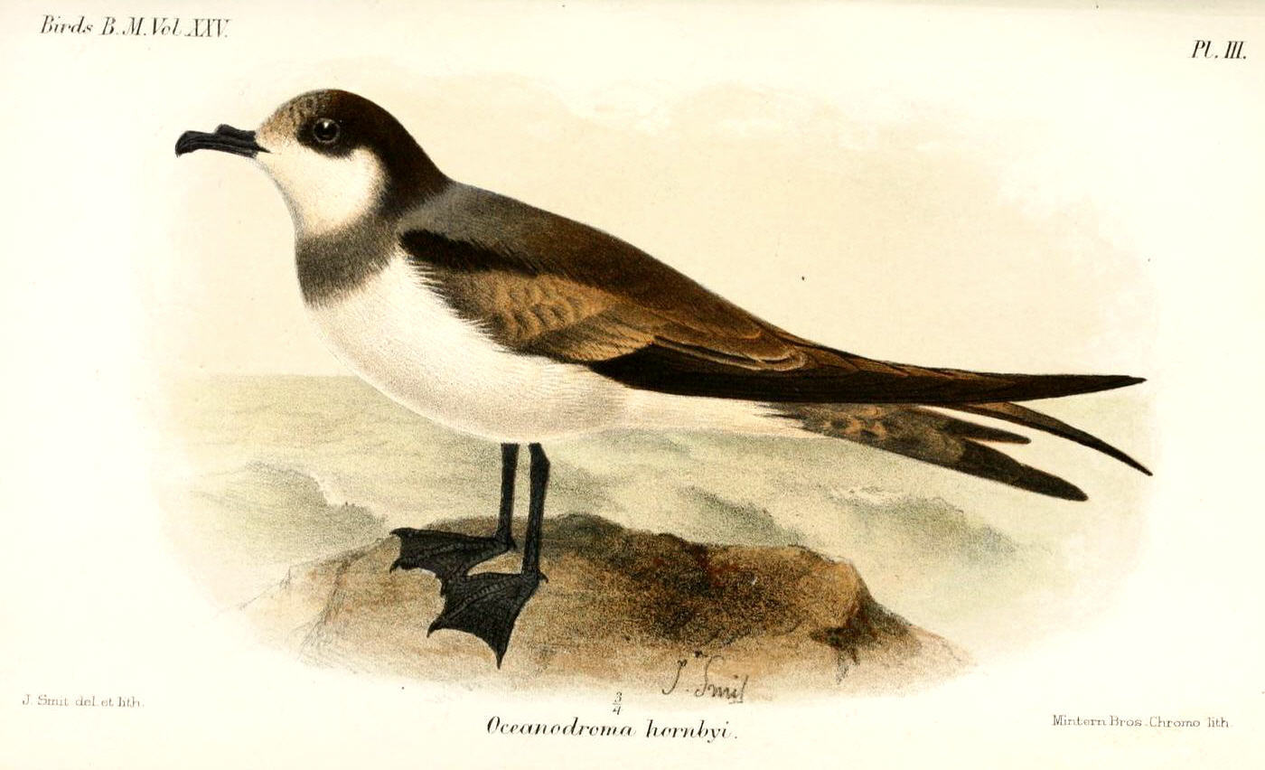 Oceanodroma hornbyi, Hornby's Storm-petrel